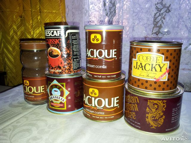 Esimene Nescafe lahustuv kohv